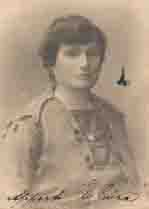 ritratto